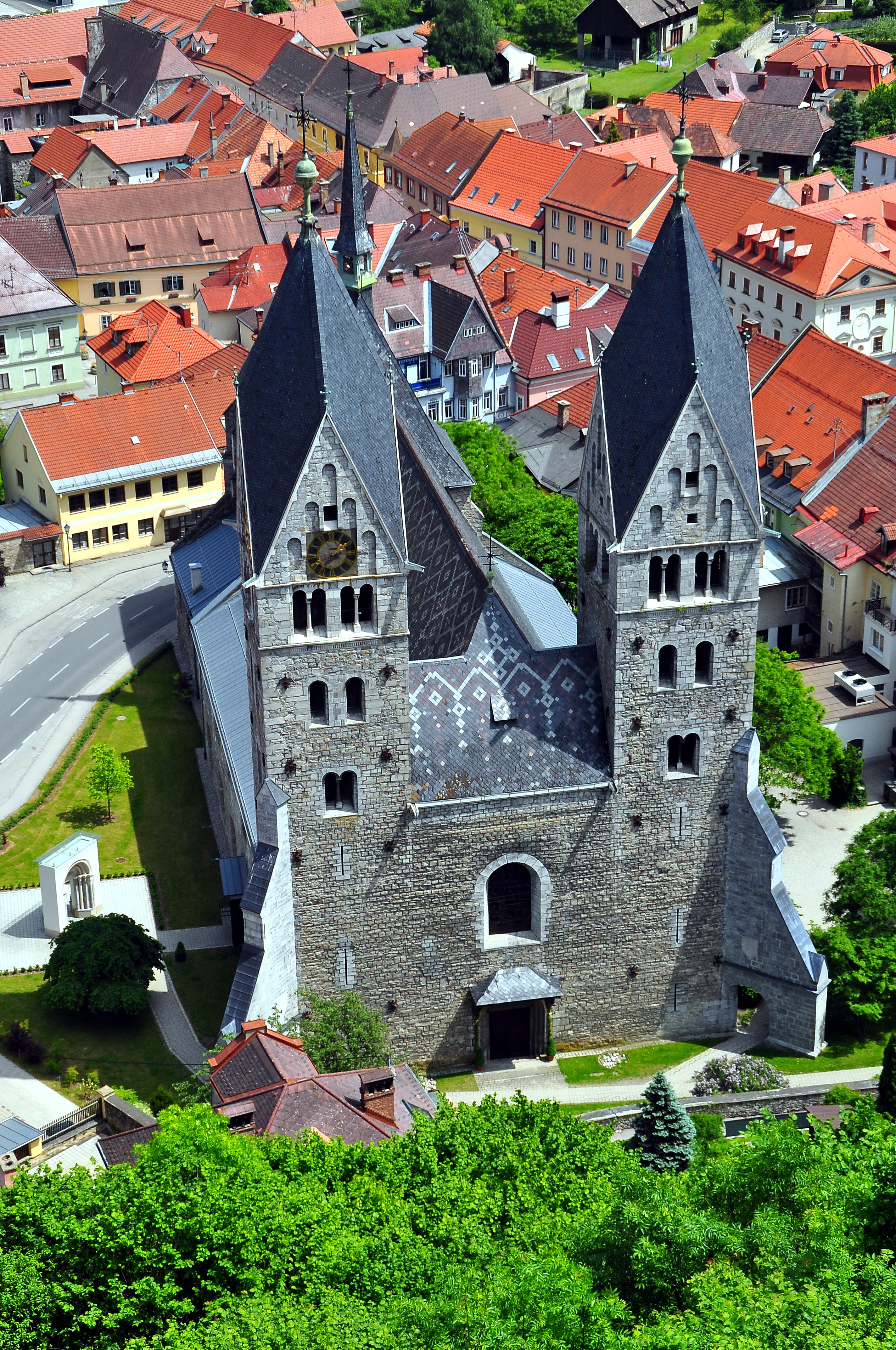 City parish church Saint Bartholomew, medieval city of Friesach, Carinthia, Austria, EU